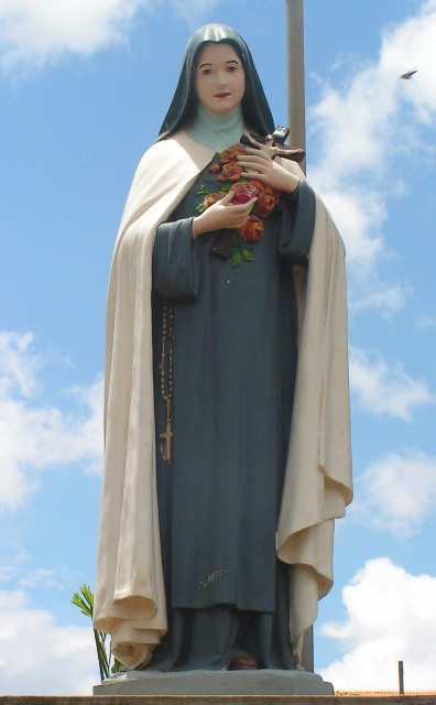 Na Statue this for the Patron Saint for Cathedral for Kumbo